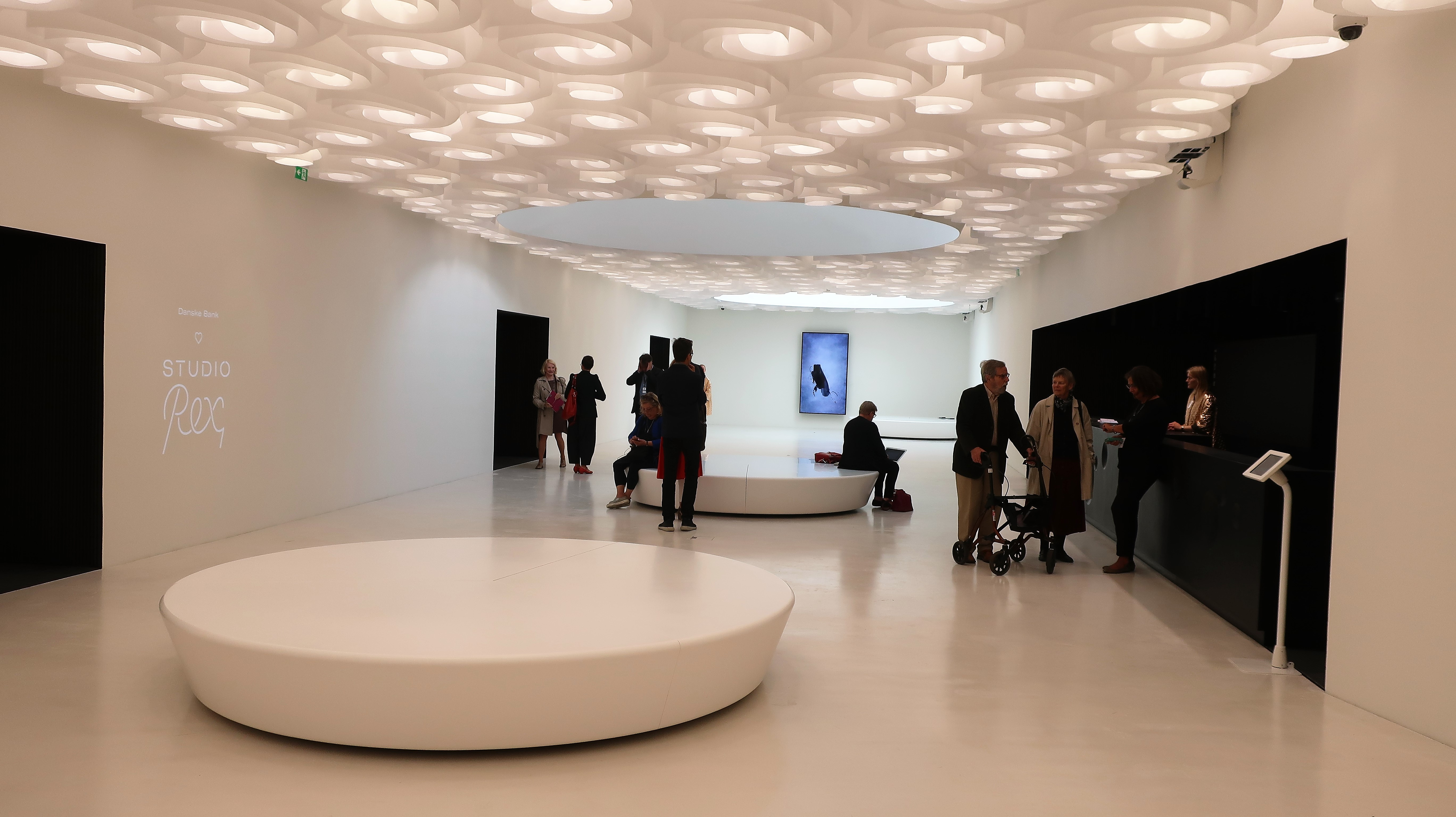 Amos Rex art museum downstairs lobby in Helsinki Finland